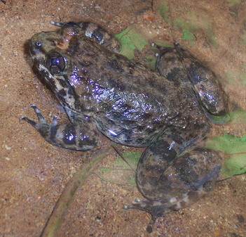 Limnonectes kuhlii from Cikelepa River, Jabranti, Kuningan, West Java, Indonesia